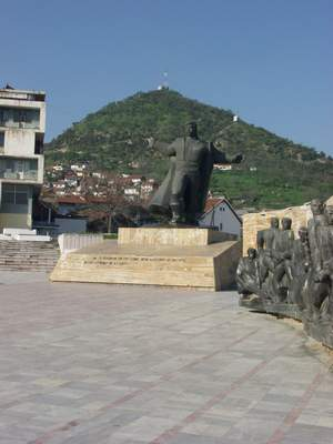 Monument of Goce Delcev.